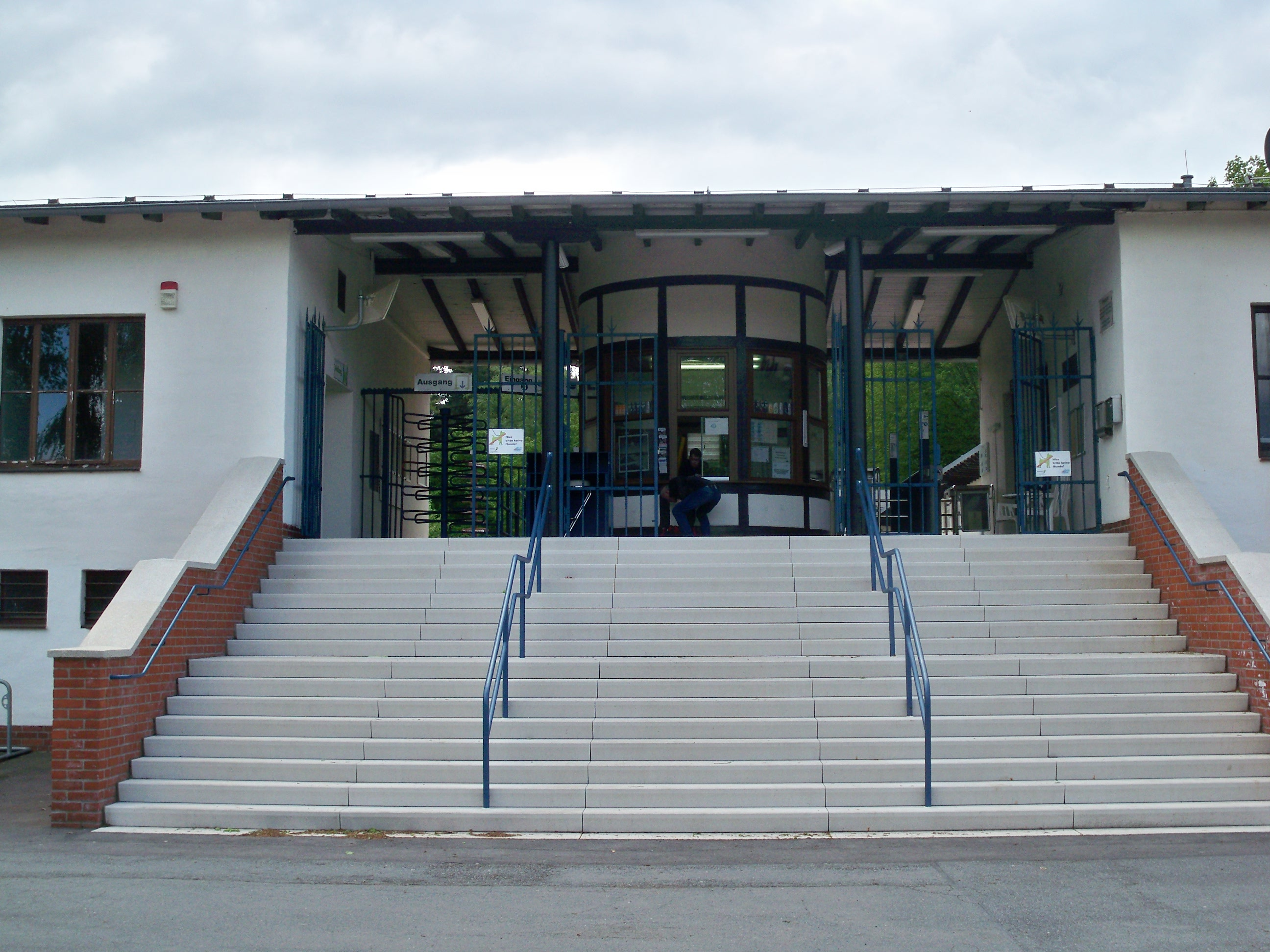 Wolfsburg, Lower Saxony, entrance to public bath "VW-Bad"